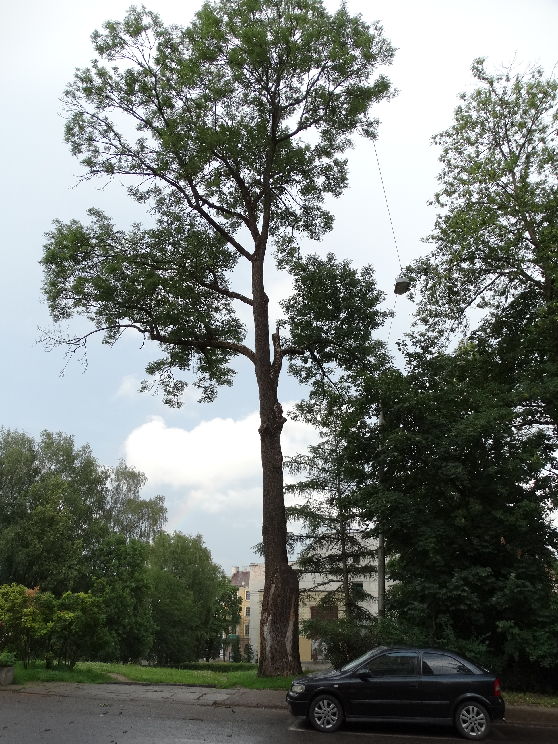 Fraxinus tree in Rose Alley, Vilnius, Lithuania